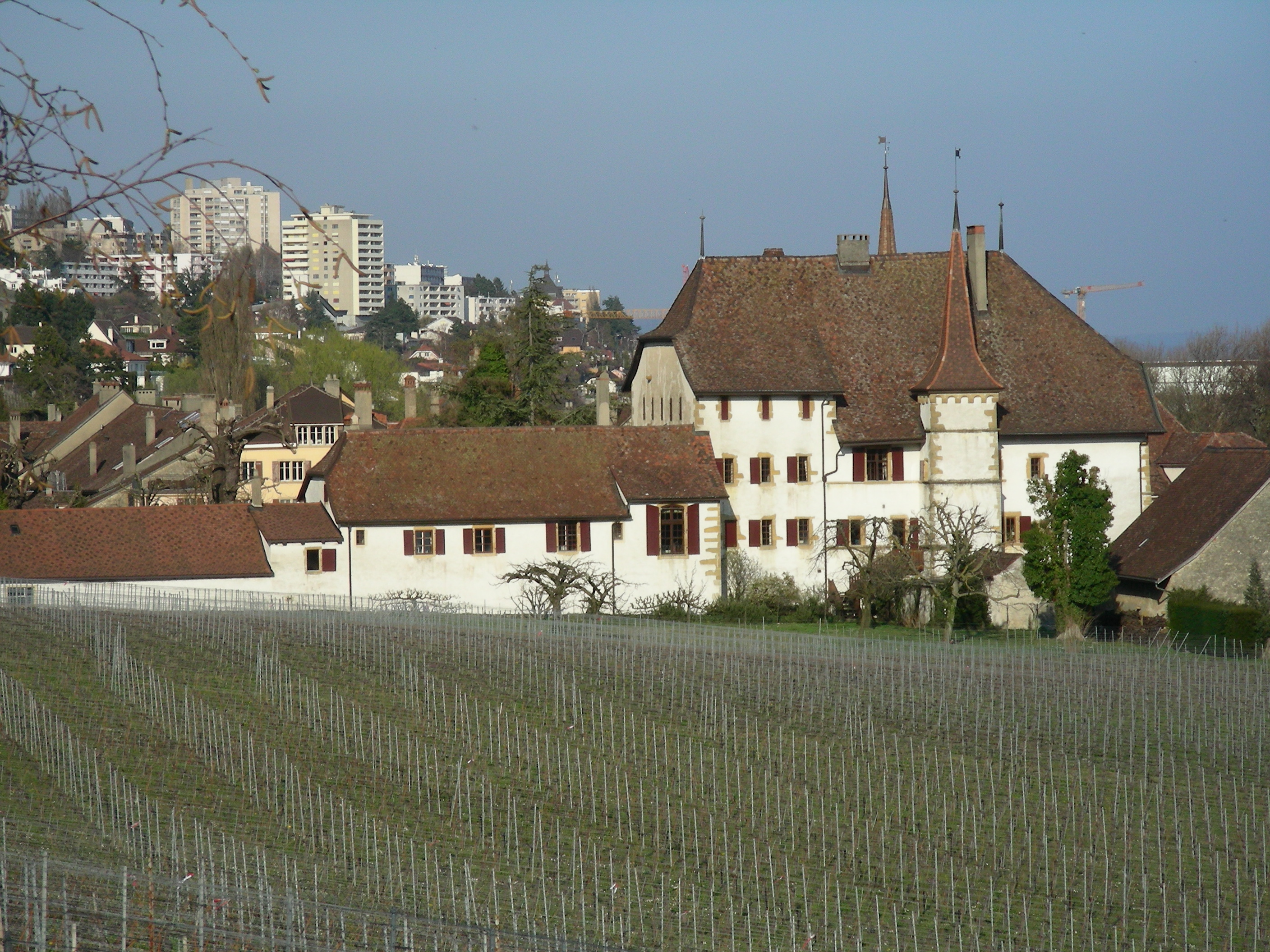 Castel of Auvernier, west side